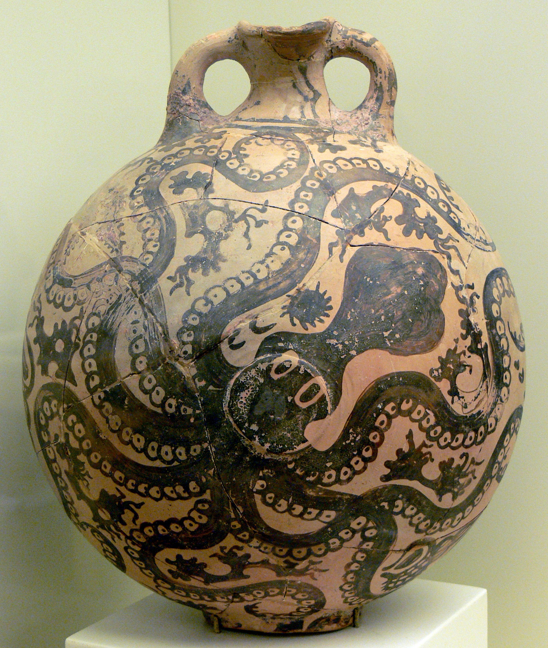 Archaeological Museum in Herakleion. Minoan clay bottle showing an Octopus ( 1500 B.C. )